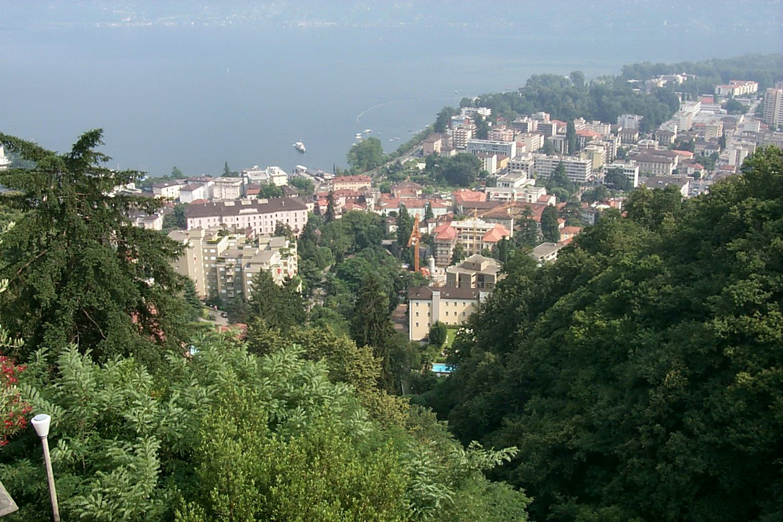 View from the sanctuary of Madonna del Sasso in Orselina looking down the valley of the Ramogna to the bay of Locarno with the eastern part of the city of Locarno and the western part of city of Muralto, Ticino, Switzerland.